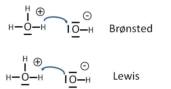 Comparison of the Bronsted and Lewis view of the acid base reaction betwee hydronium and hydroxyl atoms